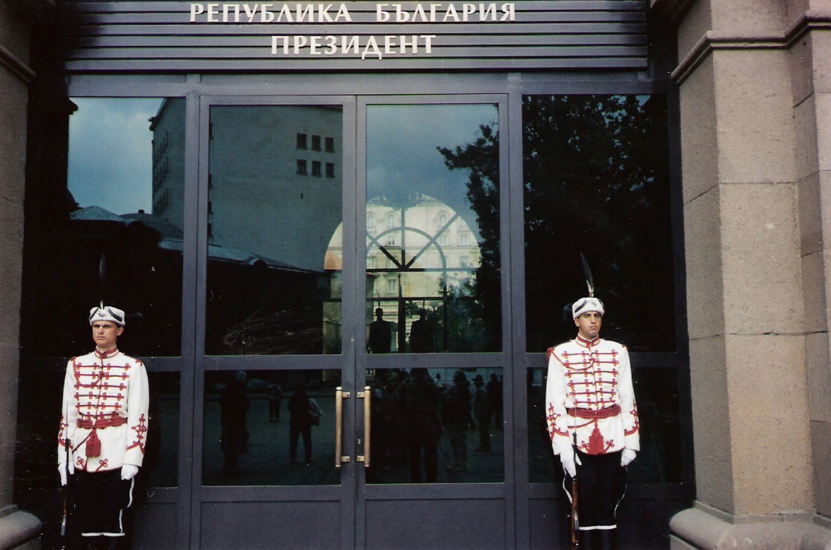 bulgarian president guards, Sofia